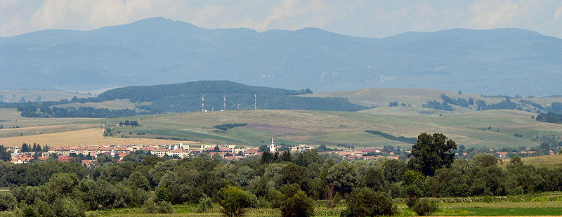 Landscape of Barót from Ágostonfalva village